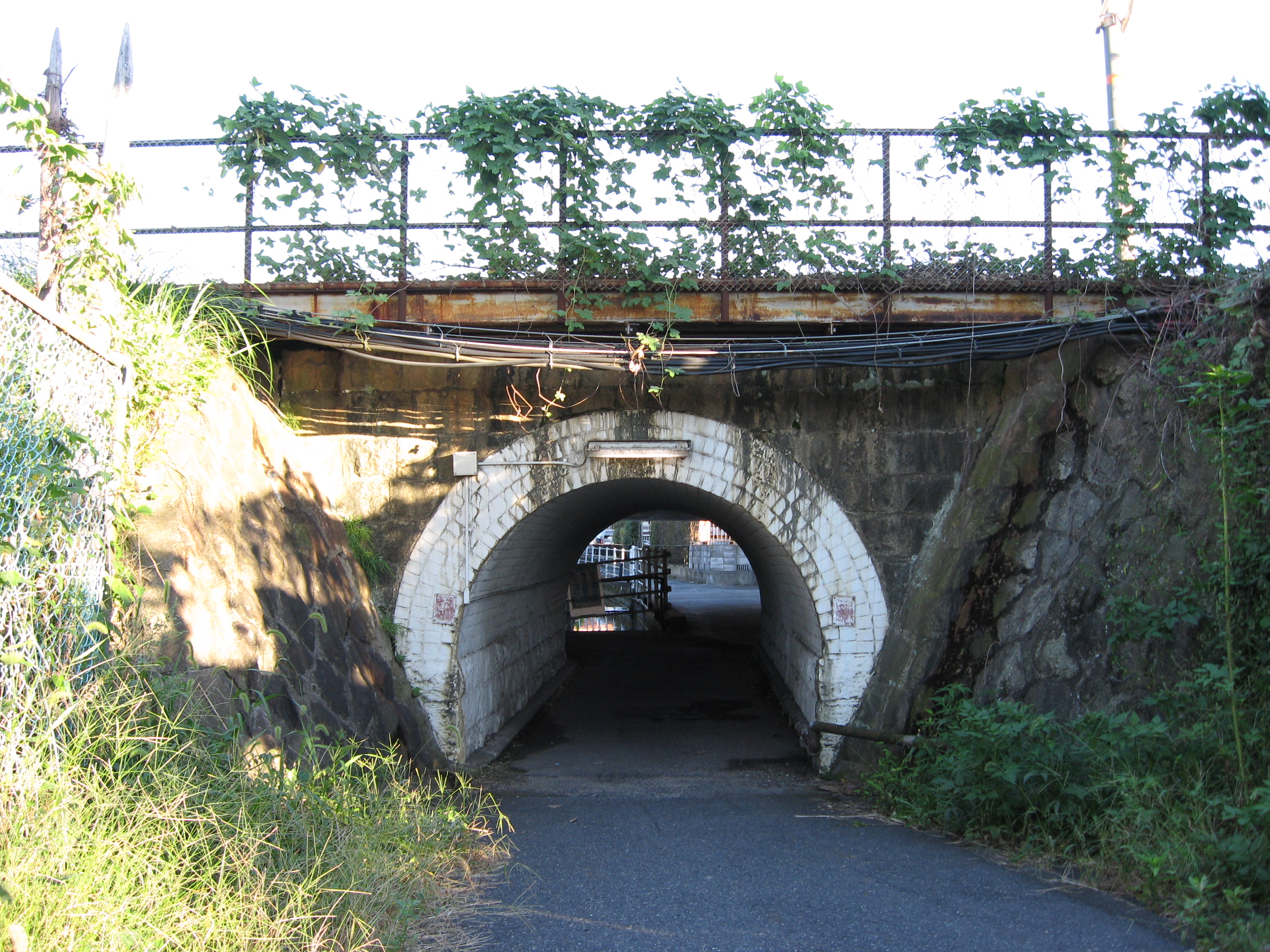 Low-Height Tunnel in Kusatsu City